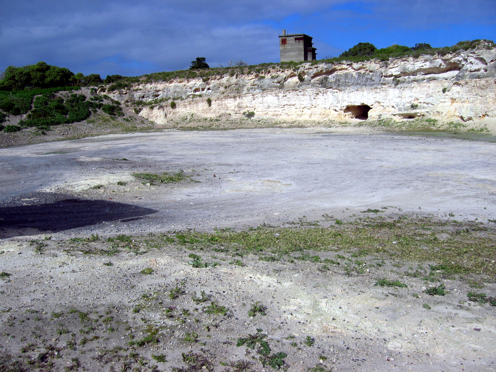 South Afrika, Robben Island, Quarry